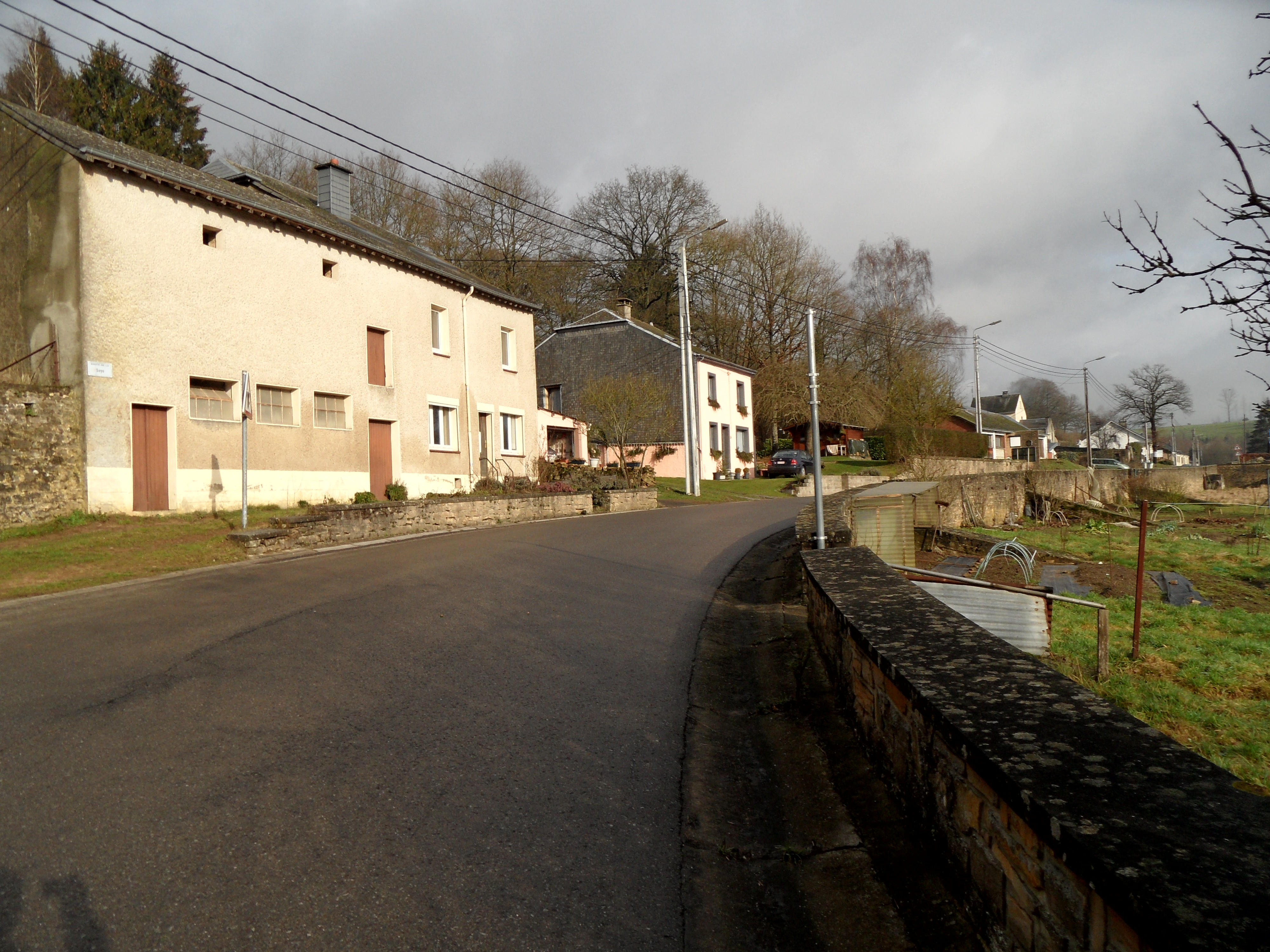 Main street in the village of Limes near the French frontier (Belgium, province of Luxembourg).